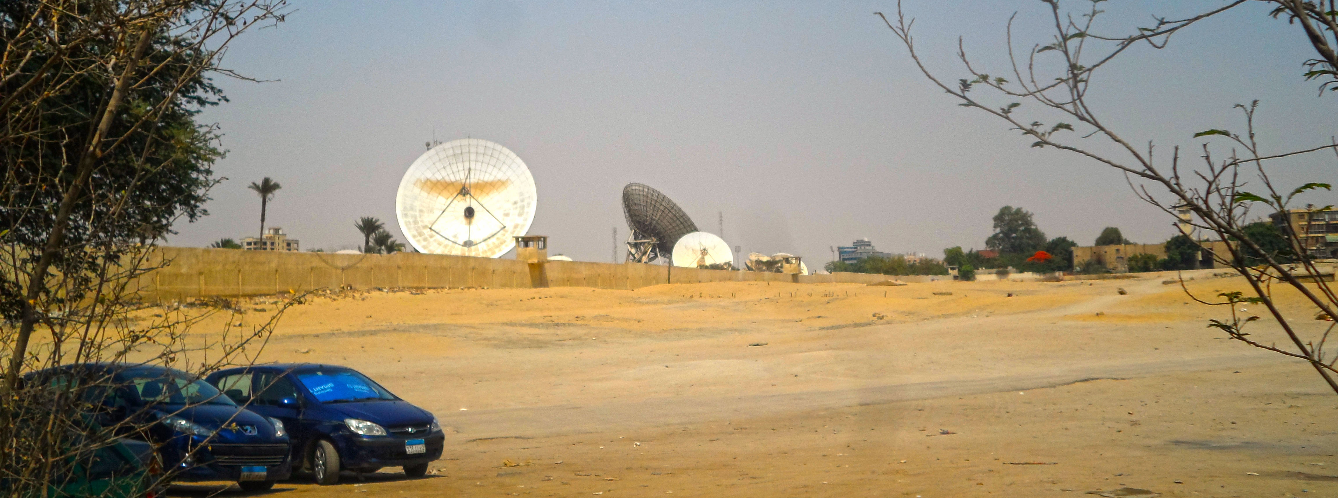 Maadi satellite station